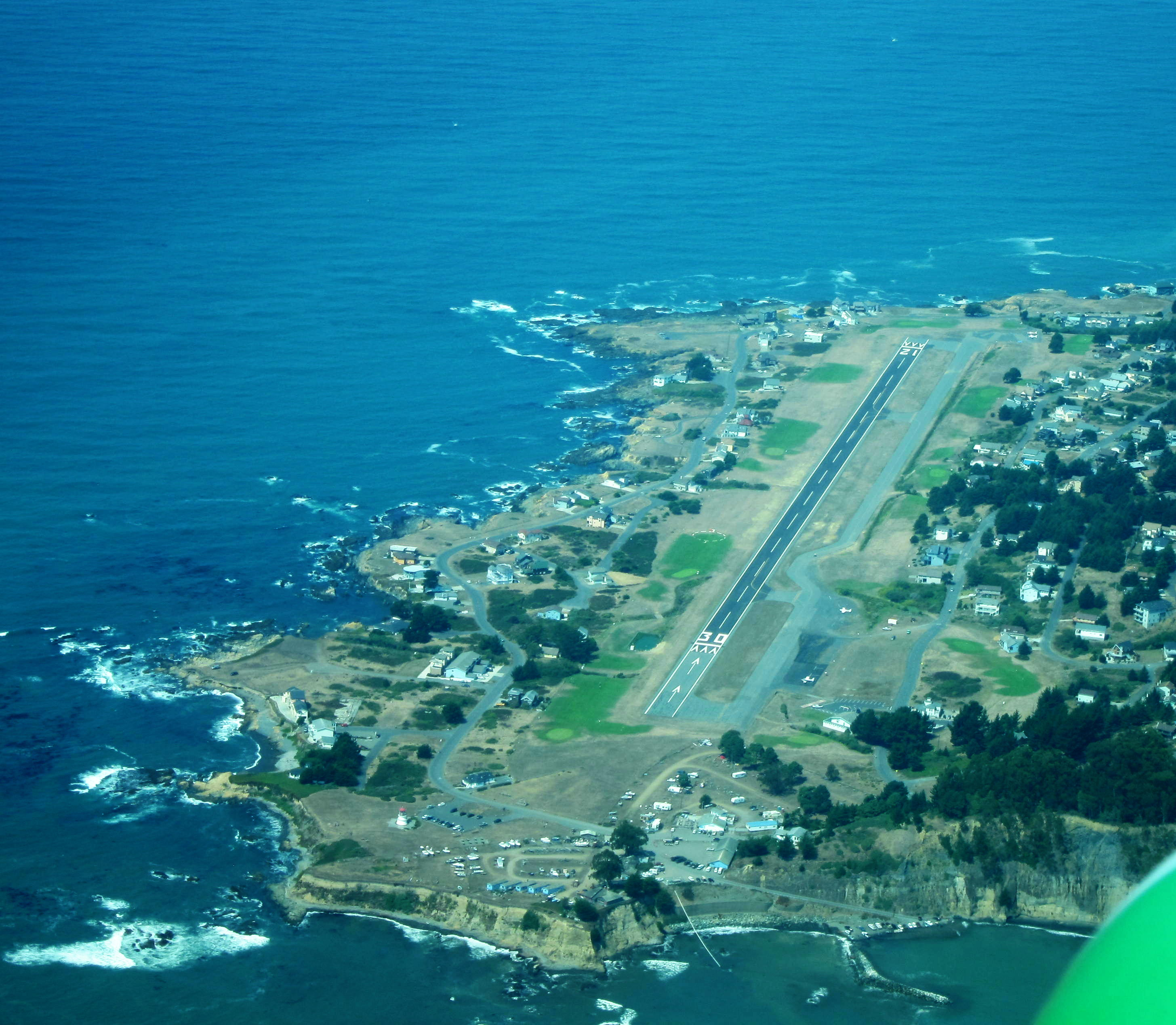 Shelter Cove, Calif